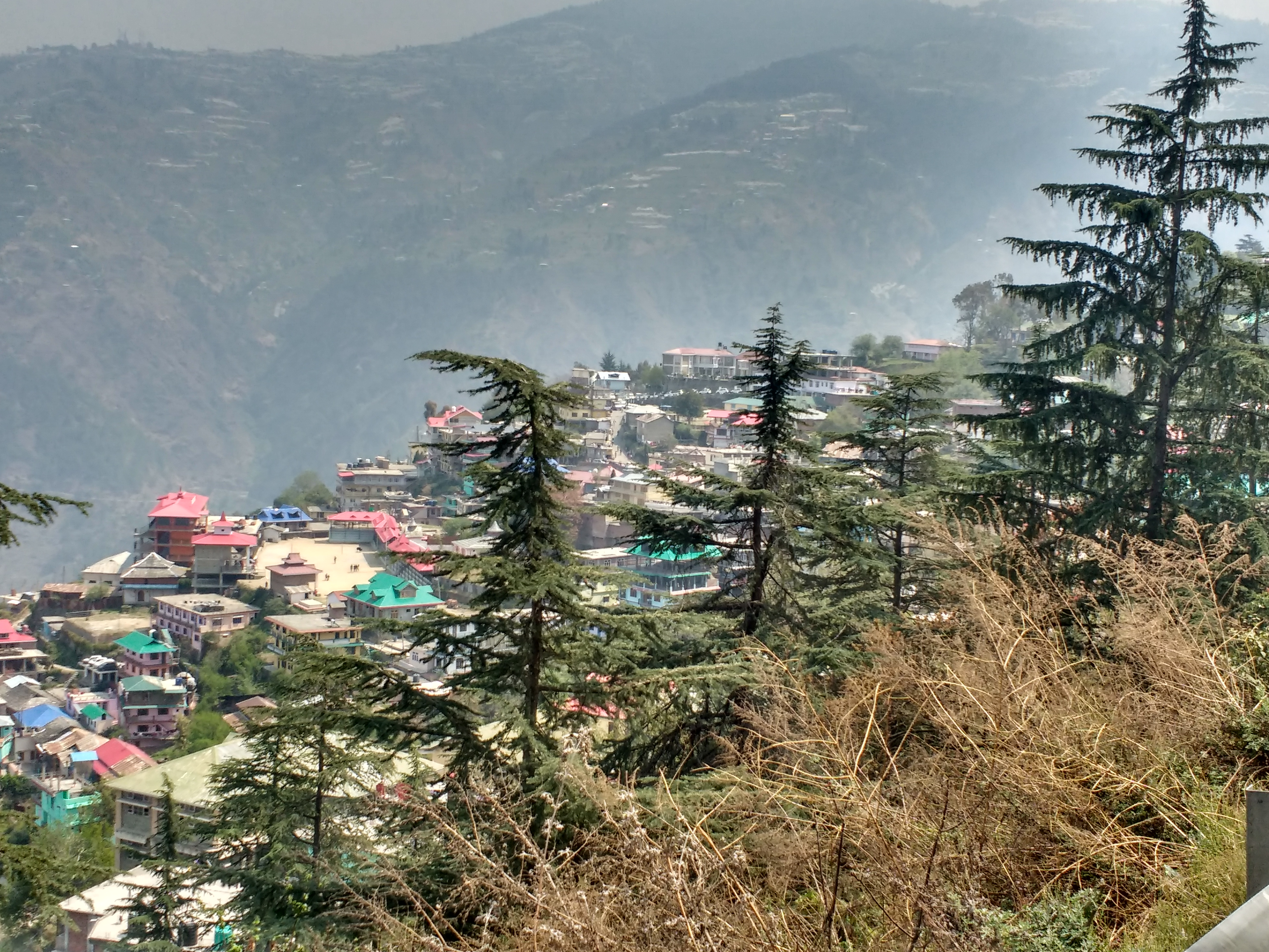 View of Main Bazaar Kumarsain from Joksha